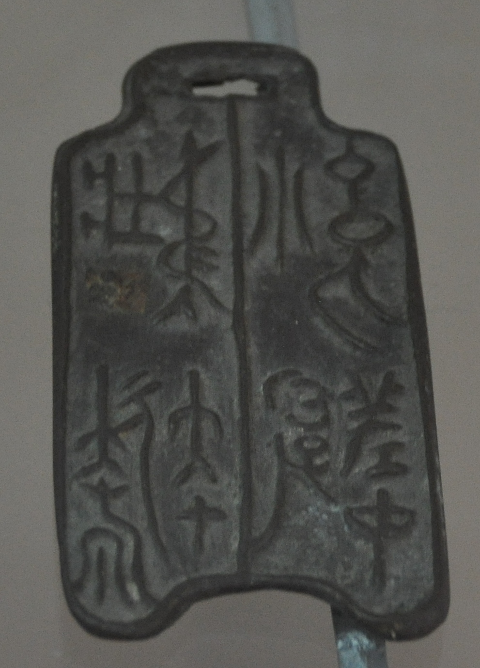 Coin, Bronze, 1st - 3rd century at room 3 Period of the struggle for independence of the Museum of Vietnamese History